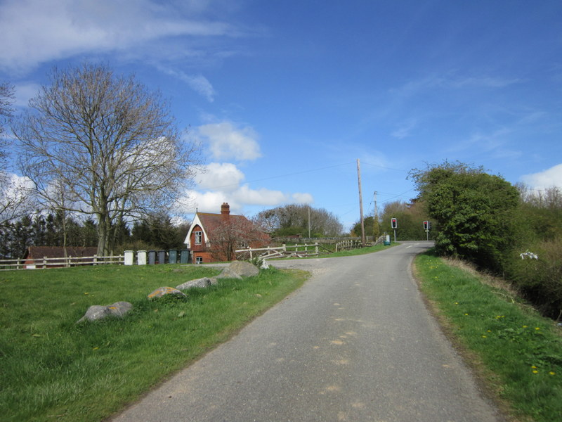 Mumby Road Station House near Thurlby